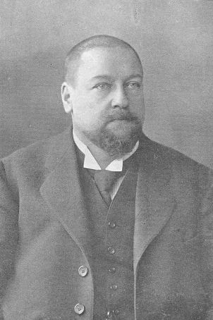 Otto Tschanz, Chief Mechanical Engineer of SBB